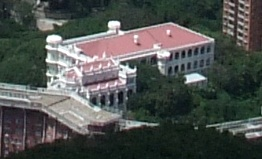 Distant view of University Hall (University of Hong Kong), viewed from High West.